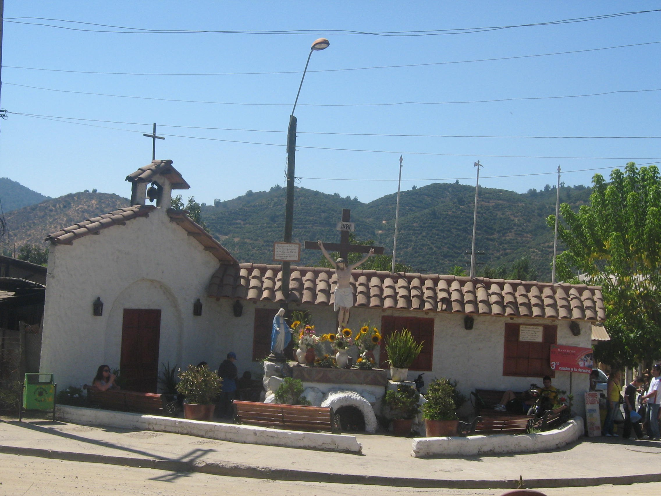 Virgin Maria, Pomaire (Chile)